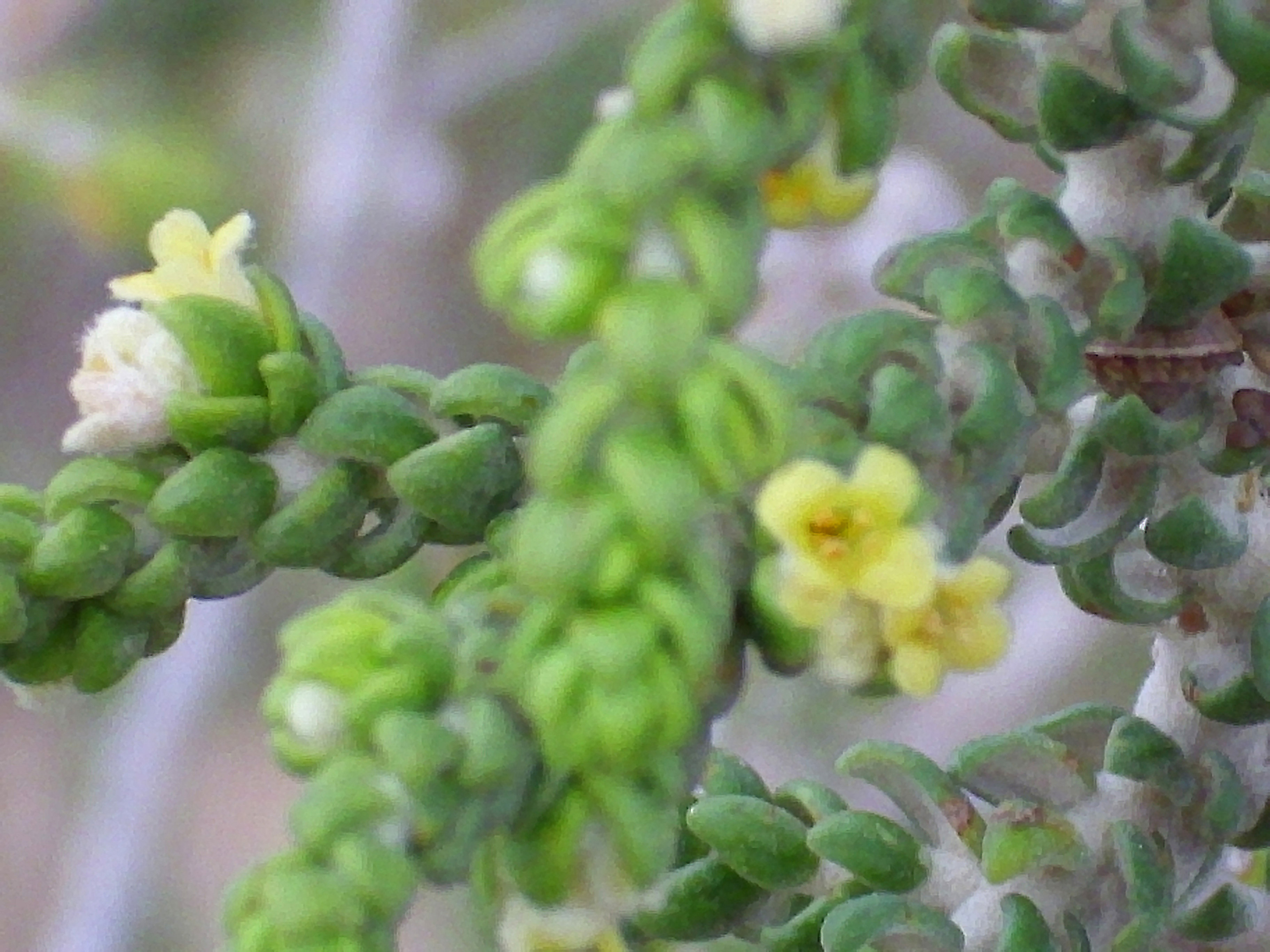 Thymelaea hirsuta close up, La Mata, Torrevieja, Alicante, Spain.